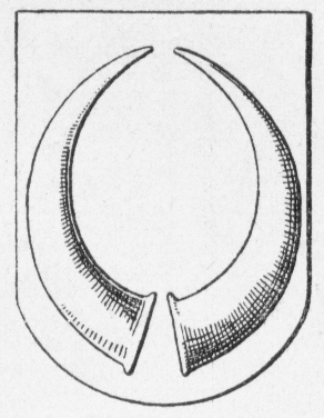 Coat of arms of Hornum Herred (Hundred), a former administrative subdivision of Denmark, 1584 version. Illustration from the article Om danske By- og Herredsvaaben written by Anders Thiset and published in Tidsskrift for Kunstindustri 1893-1894.